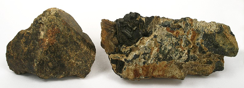 Graftonite Locality: Rice Quarry, Groton, Grafton County, New Hampshire, USA (Locality at ) Size: cabinet, 10 cm, 7 cm Graftonite (2) Graftonite is a rare iron-manganese-calcium phosphate that seldom crystallized. When it does, they are usually pretty ugly and these are no exception. However, these are large, relatively sharp crystals, thus important. Bob regarded these very highly in the collection. Pen shown for scale. Ex. Robert Whitmore Collection.